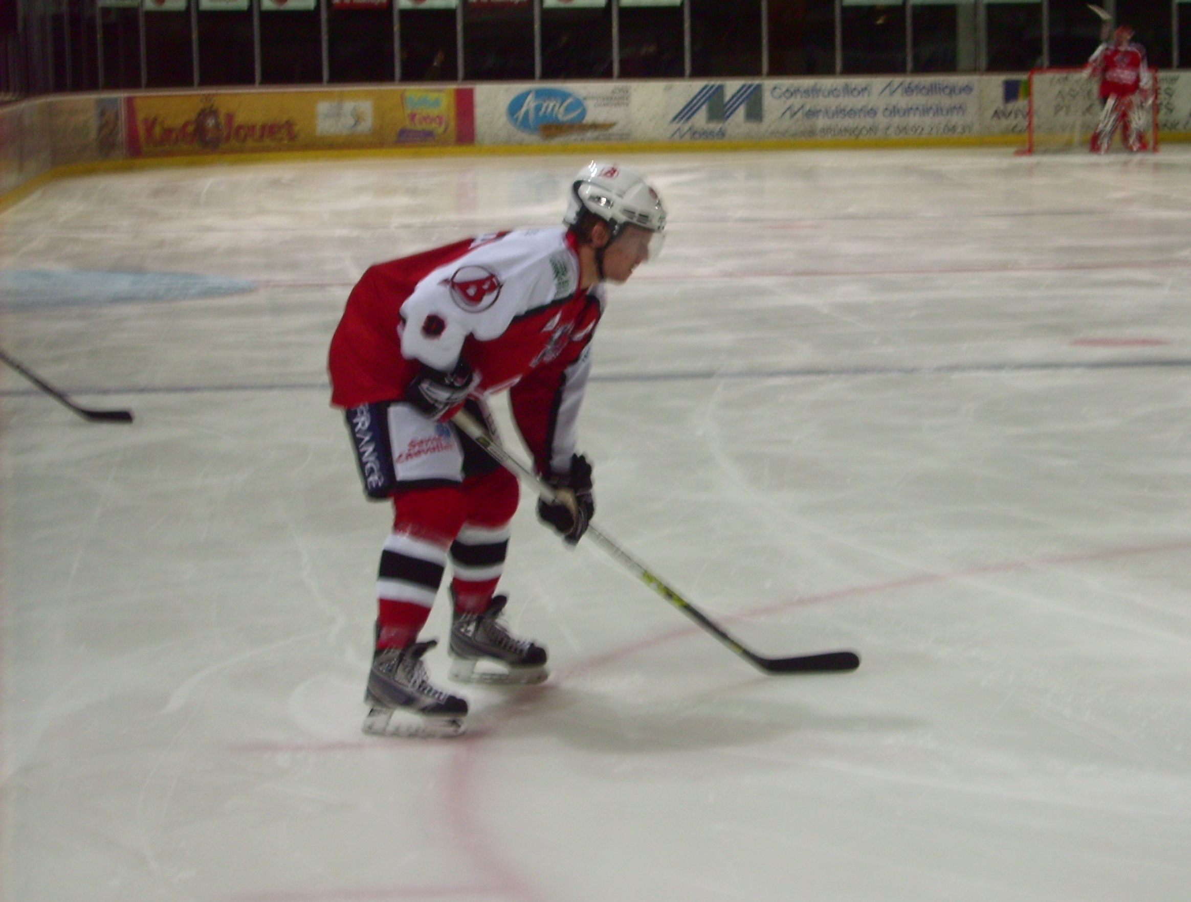 Edo Terglav slovenian ice hockey player with Briançon Diables Rouges. Friendly game against Chamonix. Patinoire René Froger, Briançon, France.